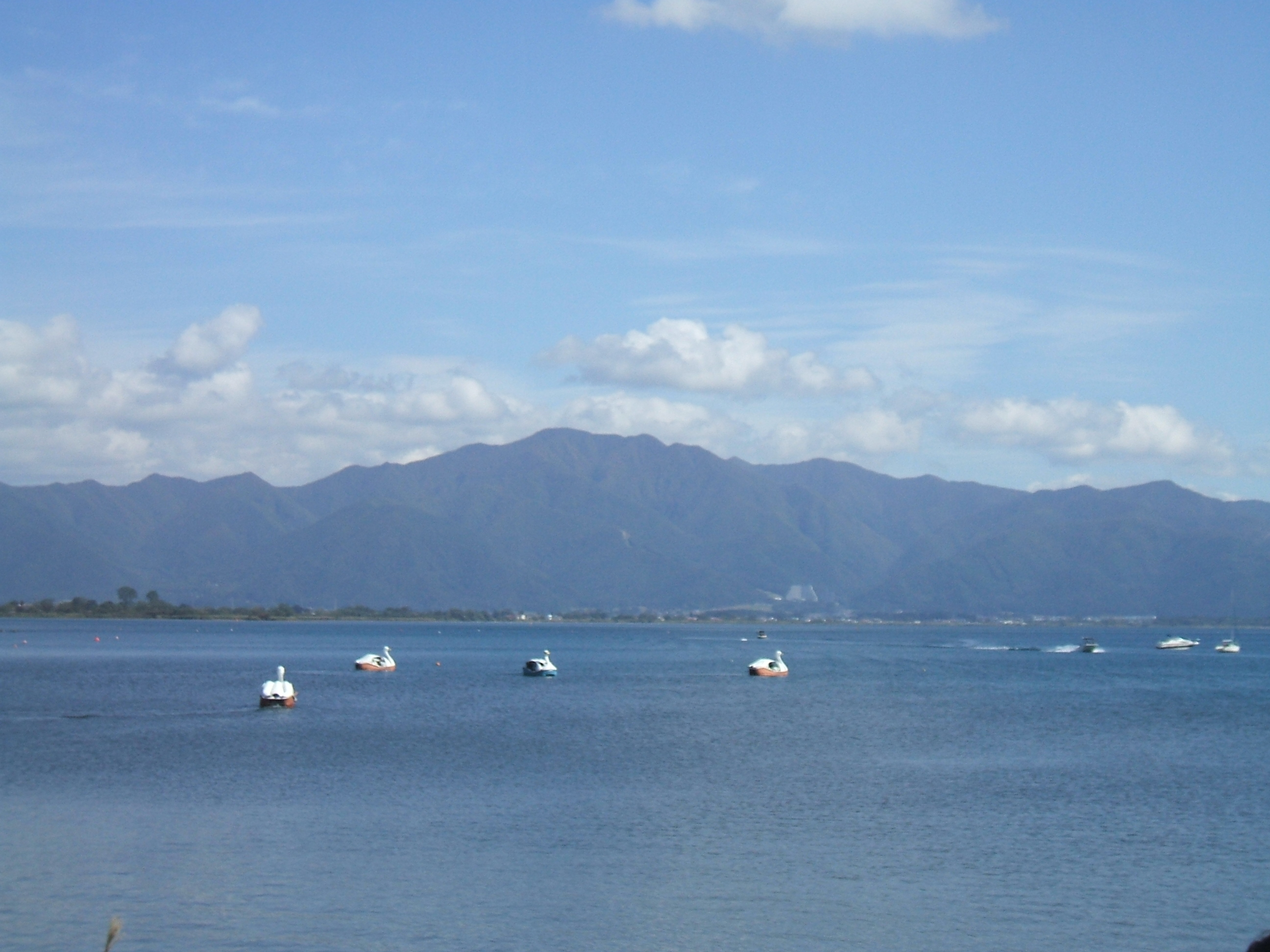 Landscape of Inawashiro lake. Taken from "Nagahama". It is north part.